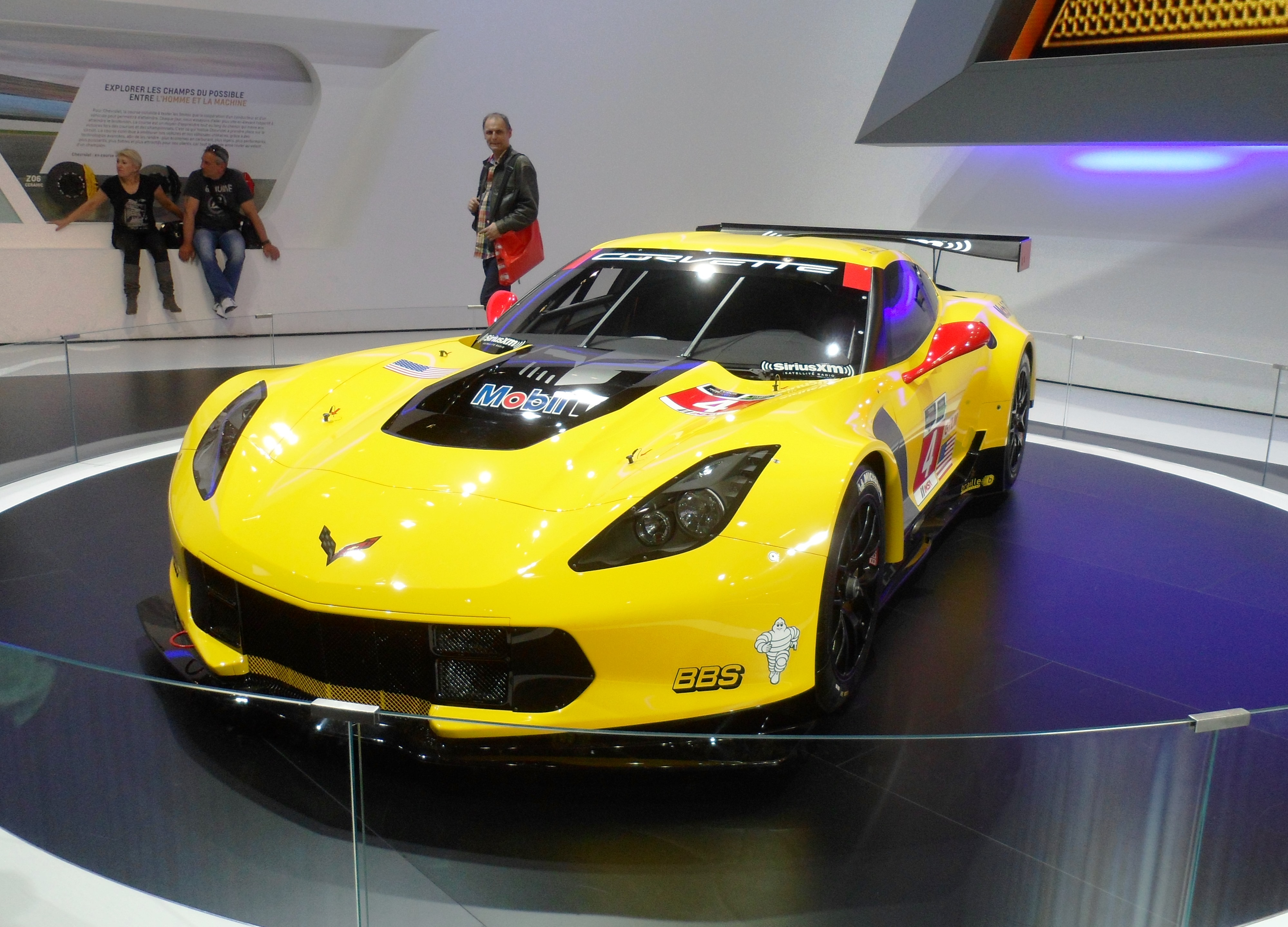 Chevrolet Corvette C7.R at Geneva Motor Show 2014